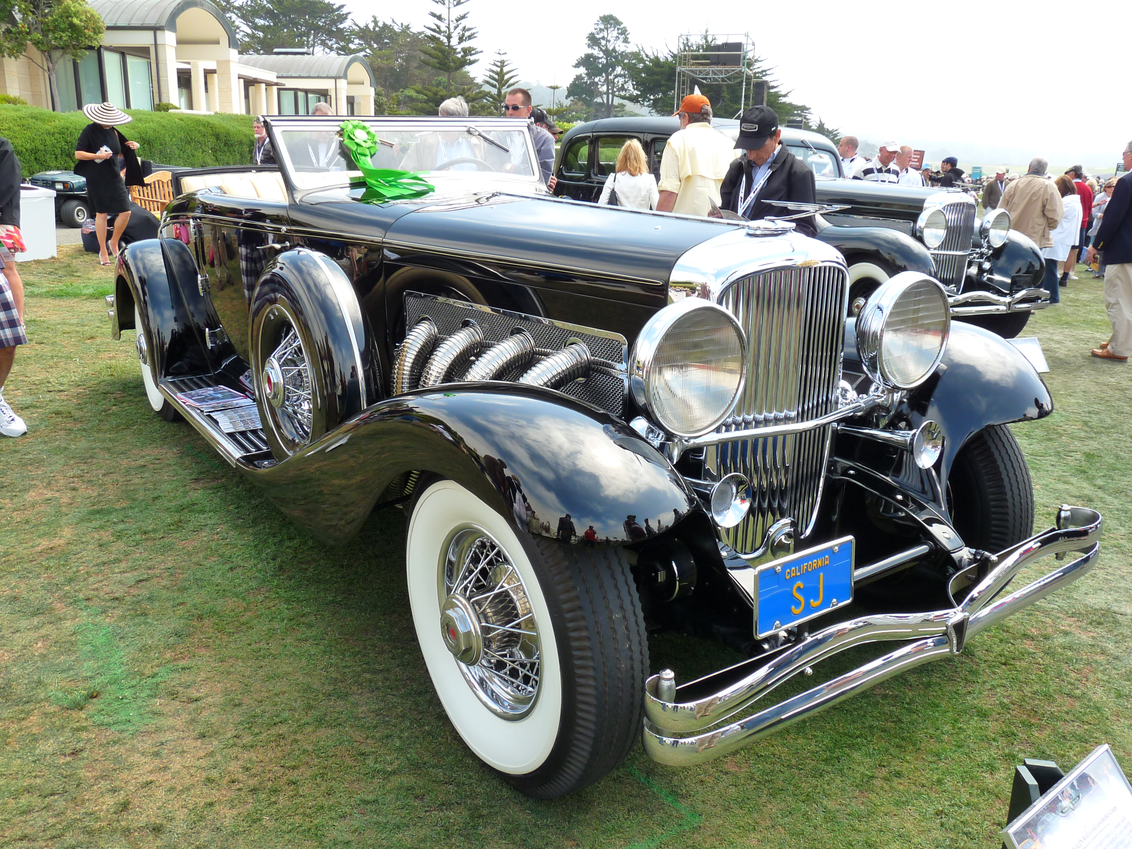 1936 Duesenberg JN Rollston Convertible Coupe